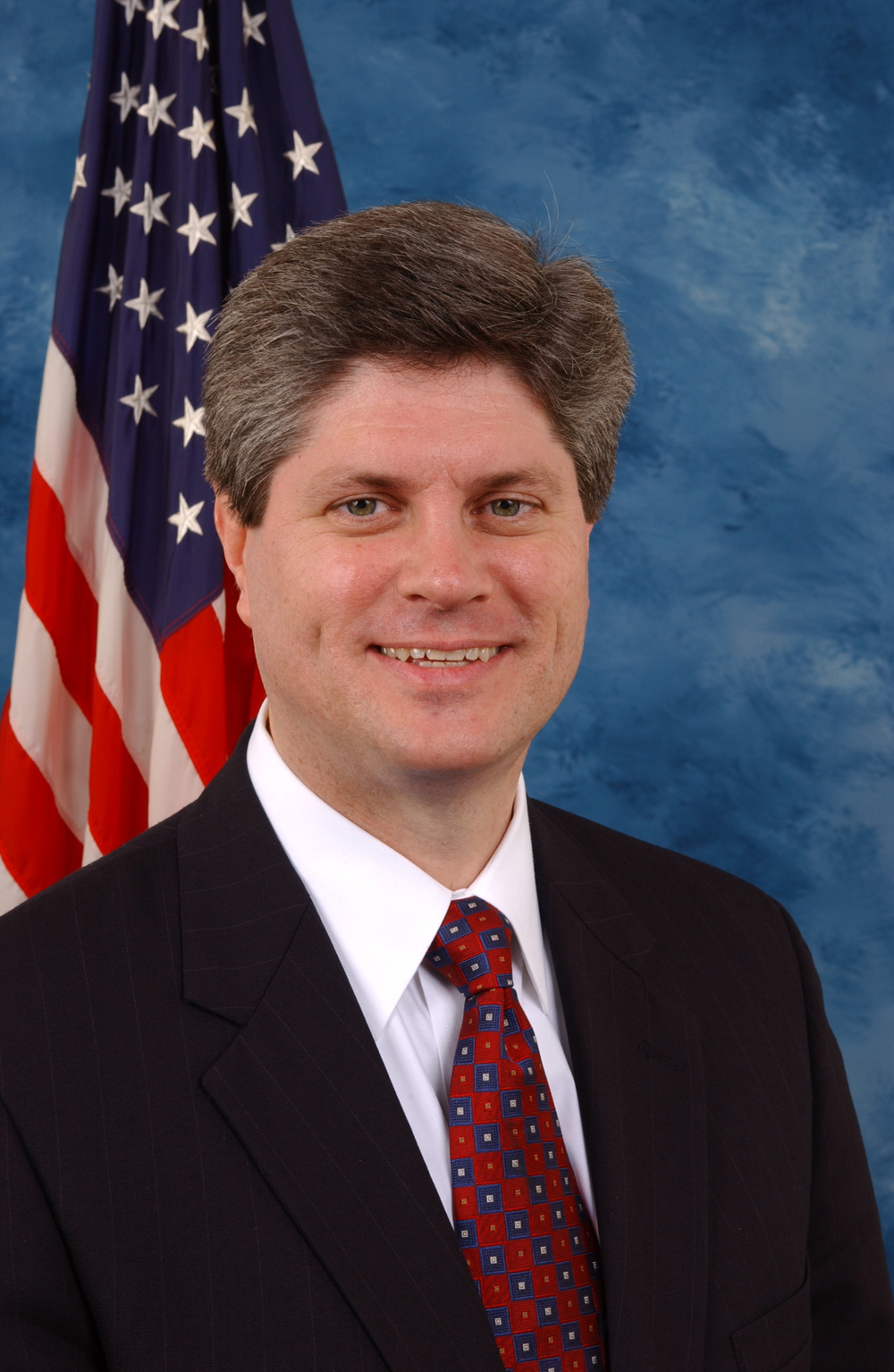 Jeff Fortenberry, U.S. Congressman.